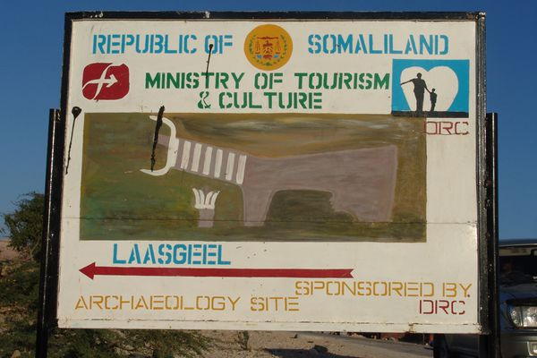 A sign in Berbera advertising for the Laas Gaal site where neolithic rock art can be found. Image taken by Charles Fred on flickr. The creator has granted GFDL licensing and permission for use in the wikimedia project.